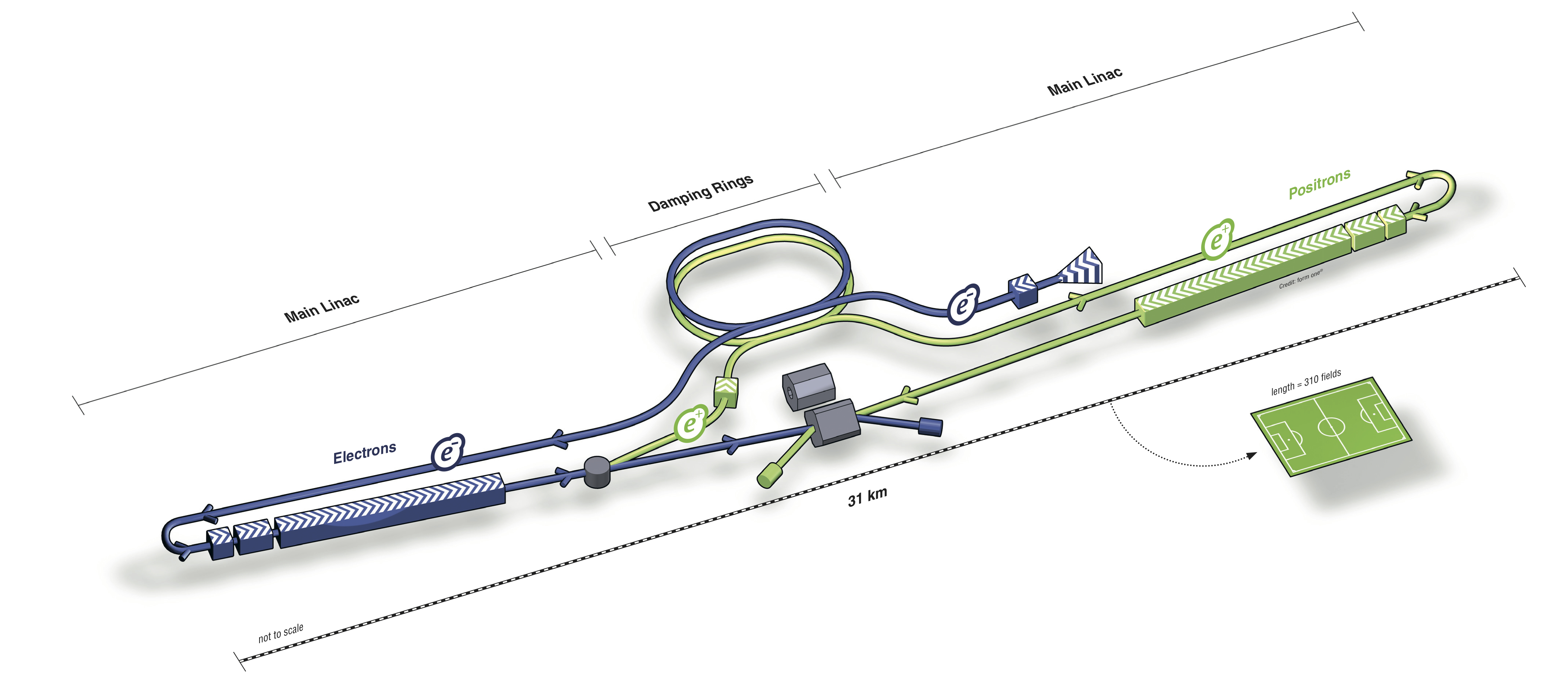 A schematic overview of the International Linear Collider, a planned particle accelerator to complement research results from the Large Hadron Collider LHC at CERN ((c)2012 ILC)